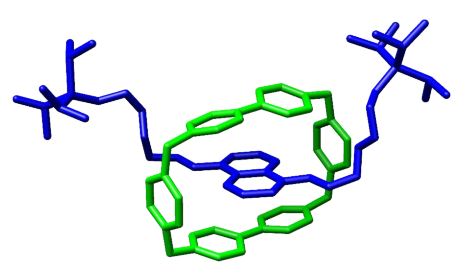 Based on File:Rotaxane Crystal Structure EurJOrgChem page2565 year1998.jpg